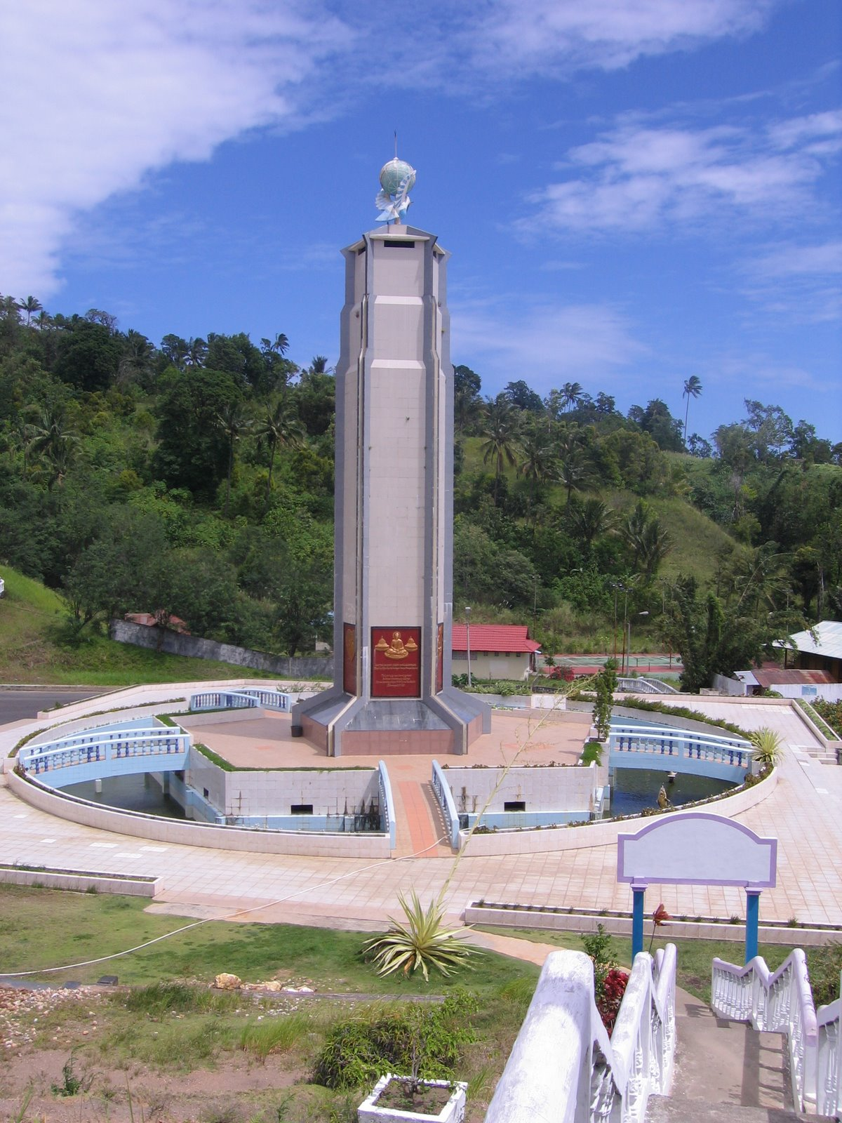 Bukit Kasih, Sulawesi, Indonesia